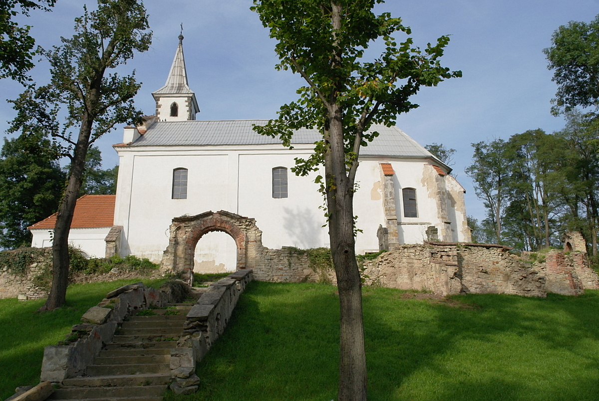 Church of St. Wenceslas, Straškov, Straškov-Vodochody municipality. Originally Gothic of the 14th century, rebuilt in Baroque style in the 18th century. General view from the south.